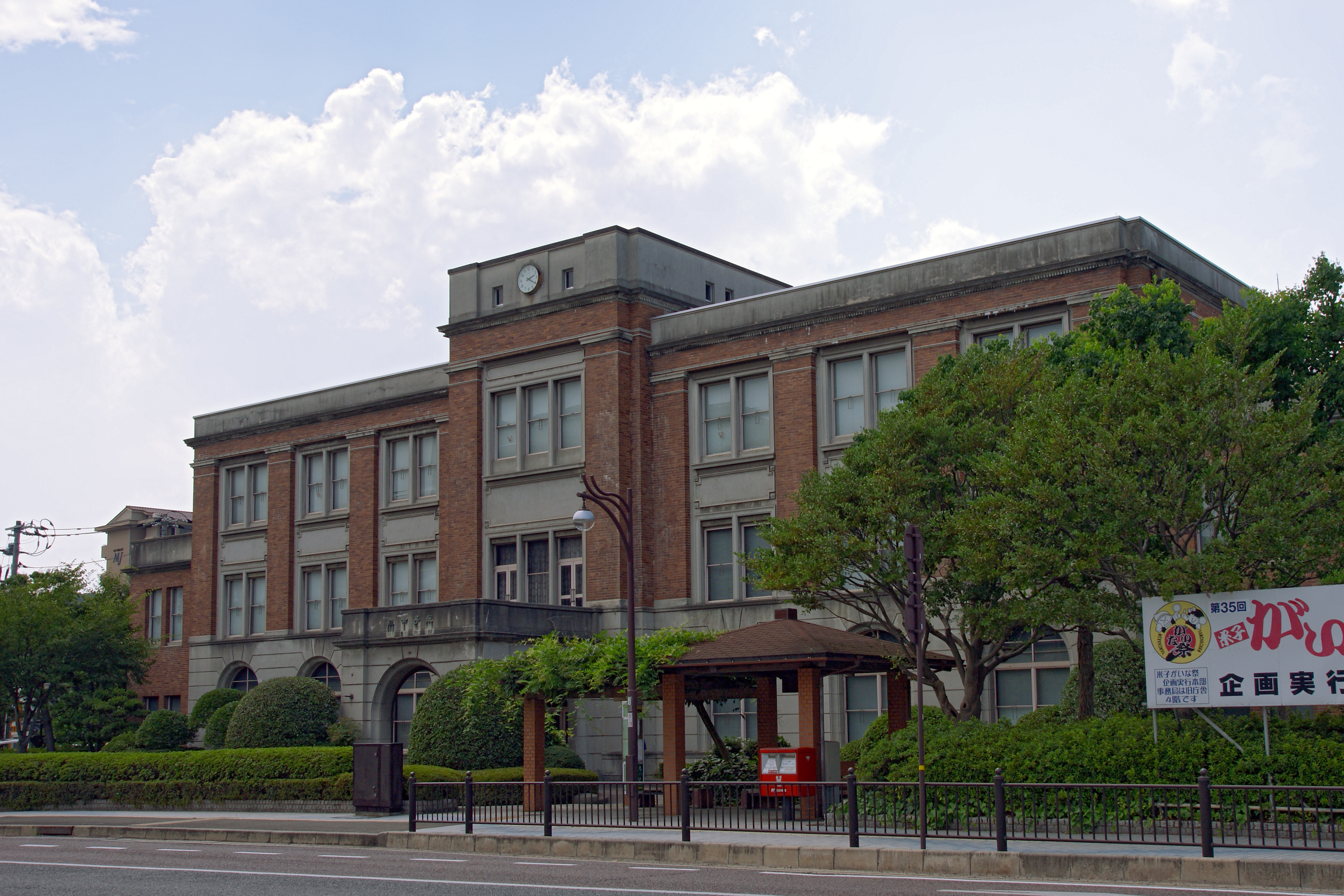 Sanin History of Museum in Yonago, Tottori prefecture, Japan